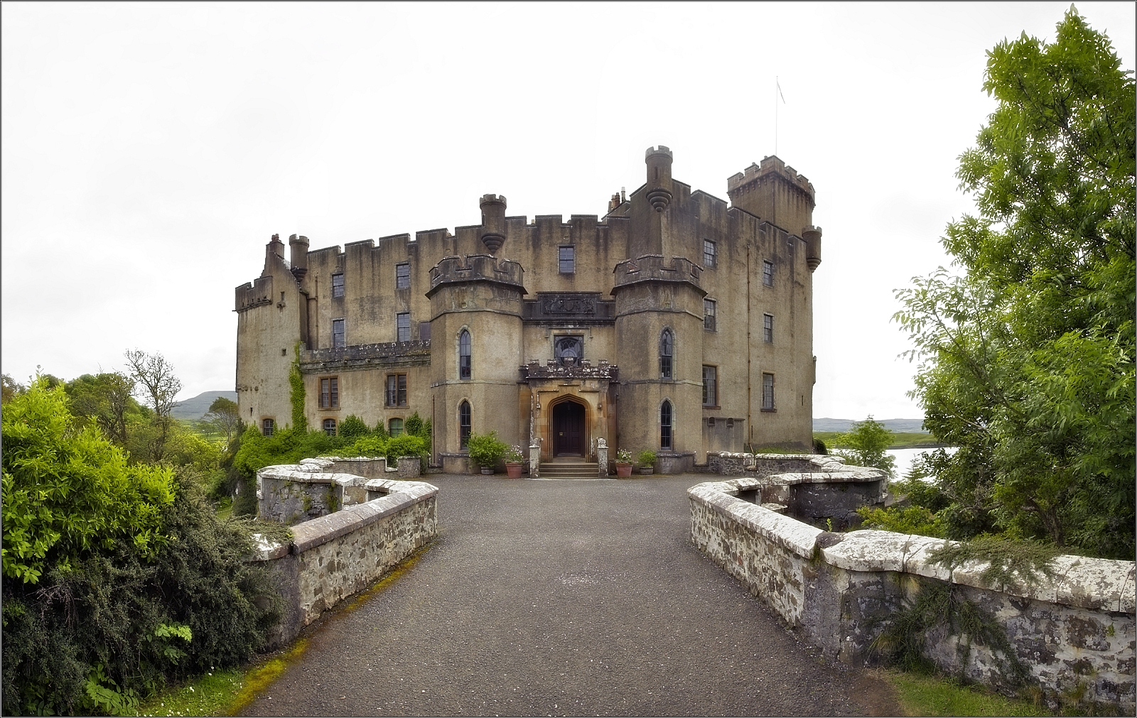 Great Britain, Skye, Dunvegan Castle